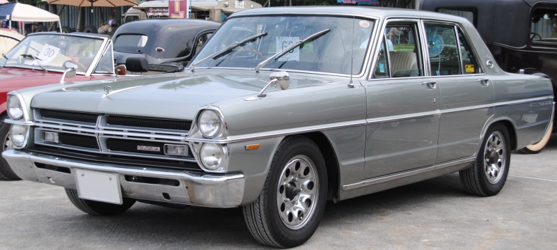 Nissan Gloria Super Deluxe